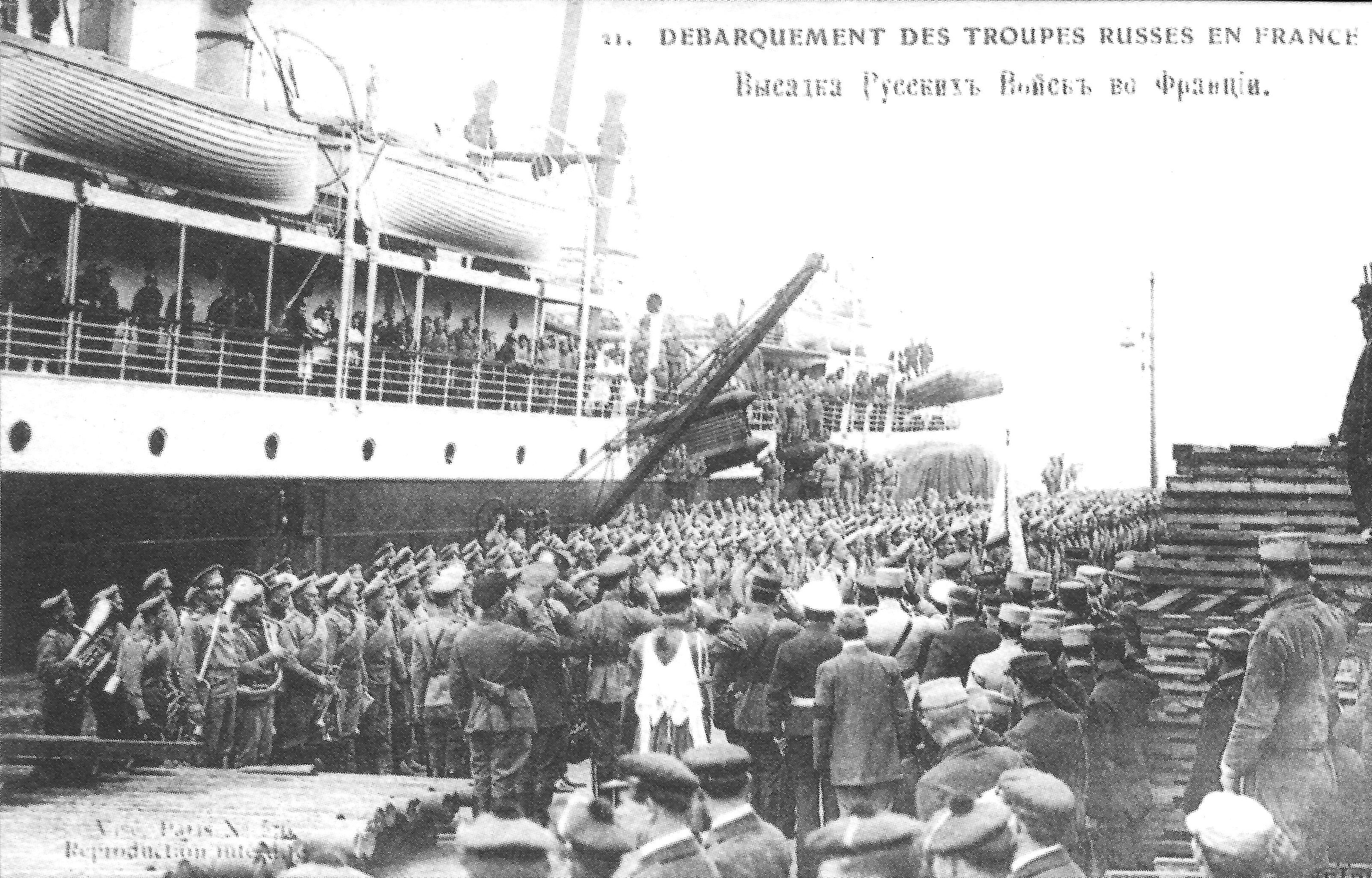 Arrival of Russian troops in France. Russian Expeditionary Force in France